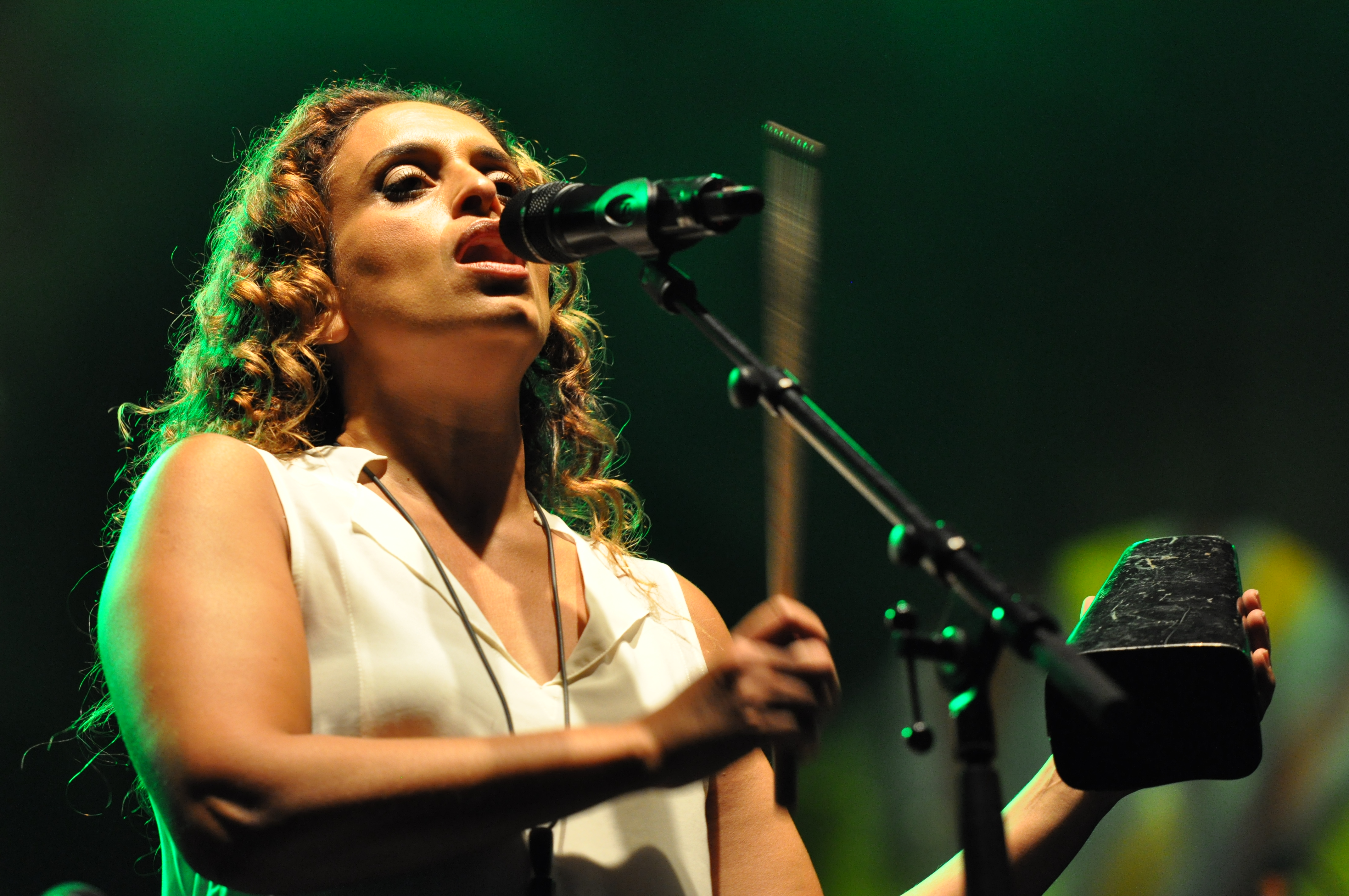 Noa (Achinoam Nini) (Israel), appearance at the 39th music festival "Bardentreffen" 2014 in Nuremberg, Germany, Hauptmarkt stage